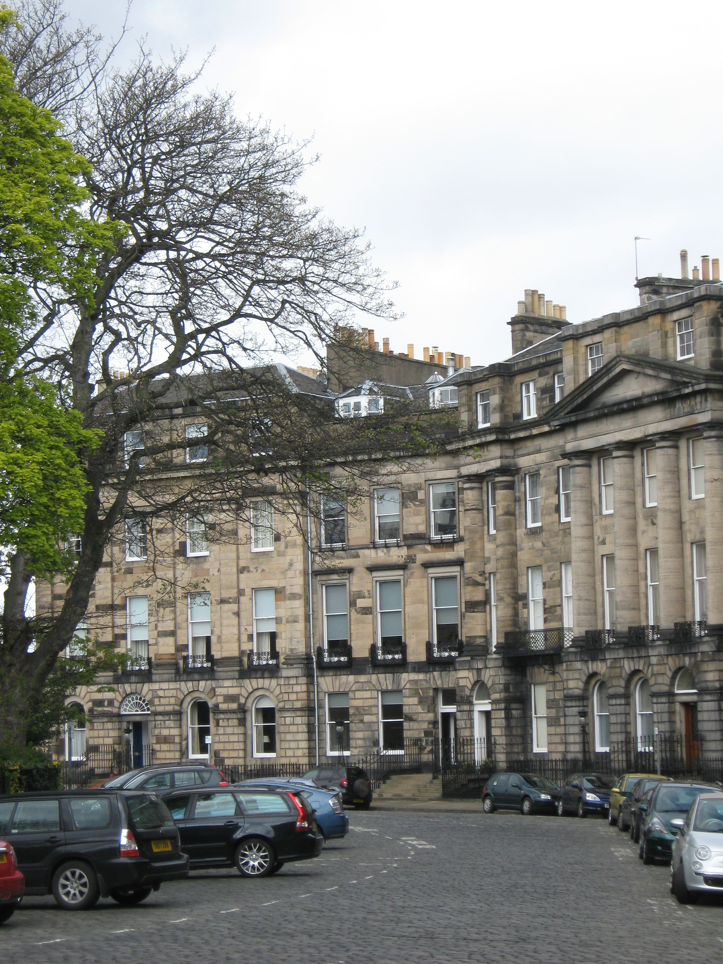 Moray Place, Edinburgh. Location (OSM permalink)